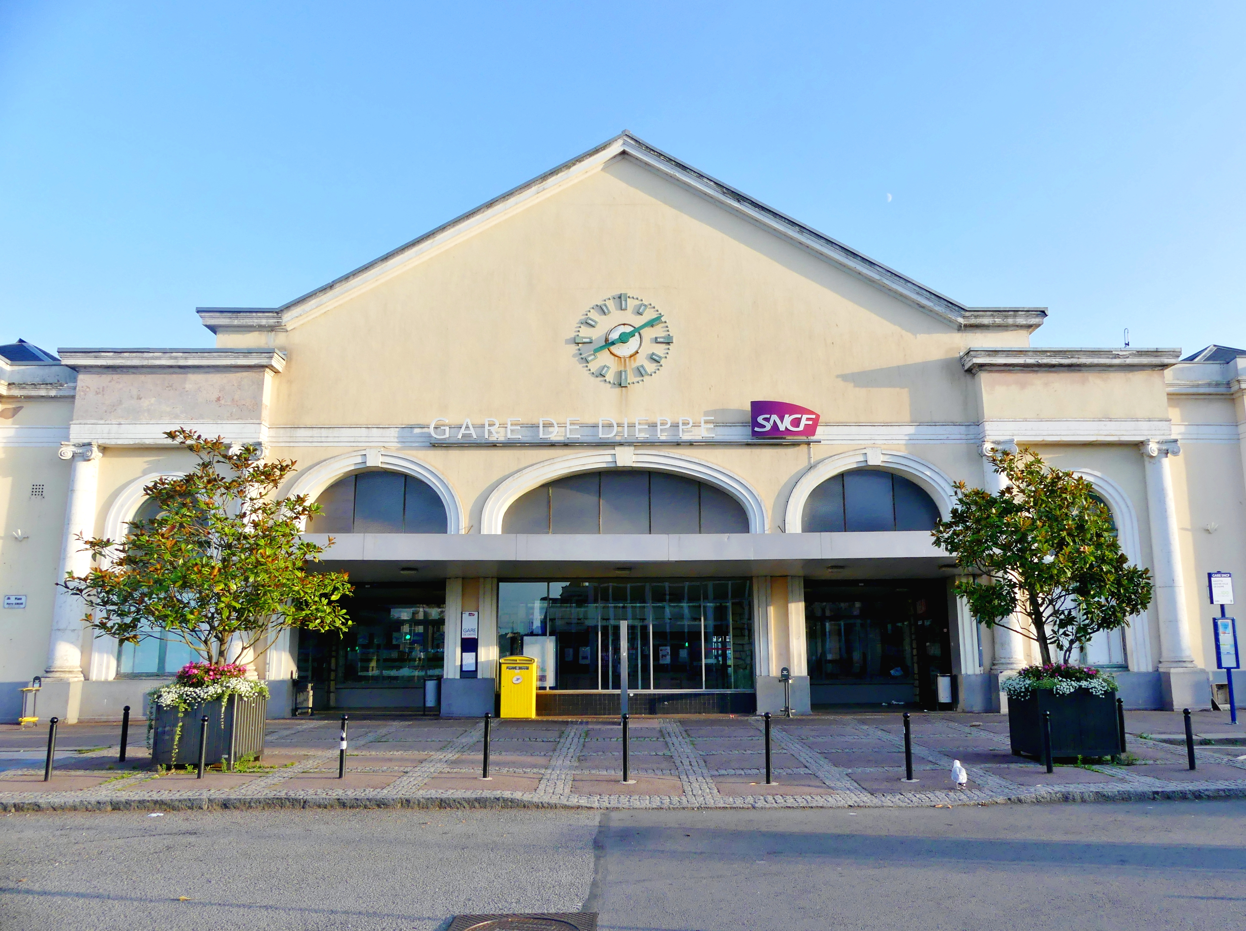 Sight, in the evening sunlights, of Dieppe railway station building, in Normandy, France.